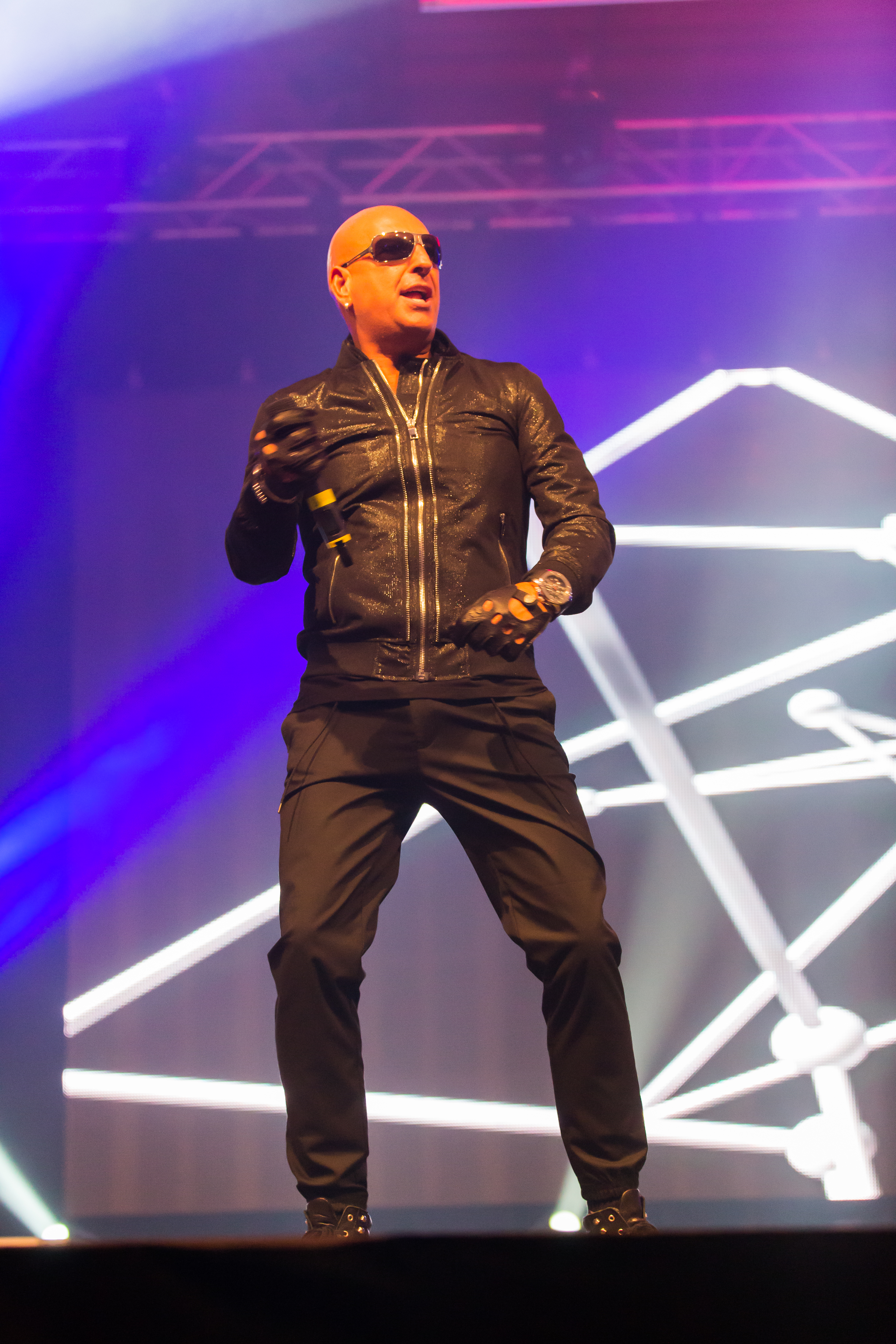 sunshine live "Die 90er - Live On Stage" Maimarkthalle Mannheim DJ Falk, Magic Affair, Captain Hollywood Project, Haddaway, Masterboy, 2 Unlimited, Marusha, Charly Lownoise